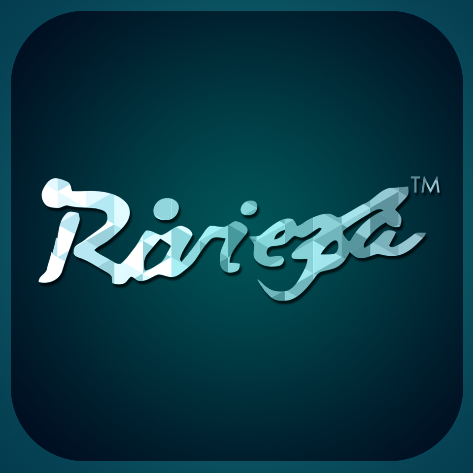 logo for riviera